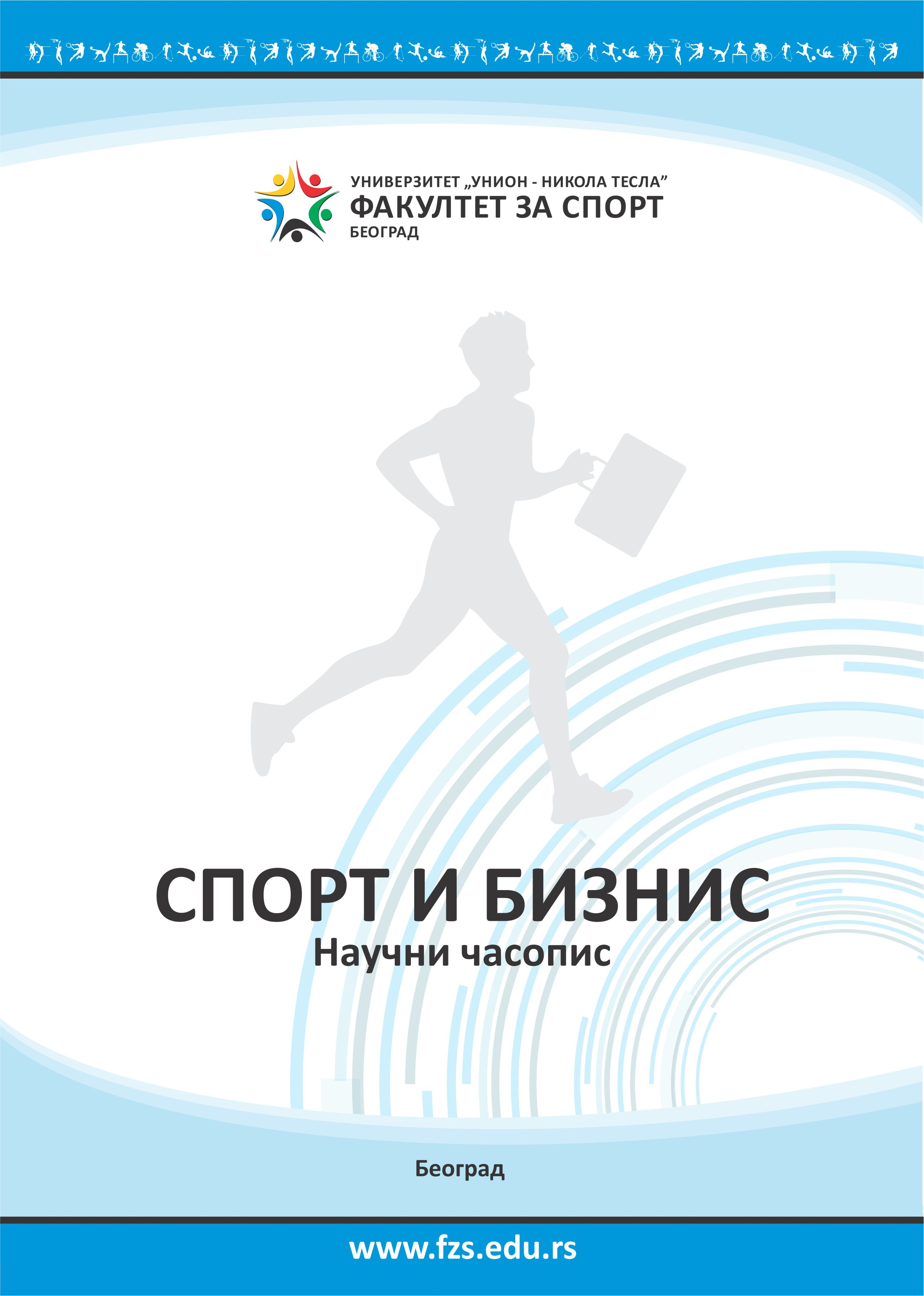 Serbian scientific journal Sport i biznis, front page, Faculty of Sports, University Union - Nikola Tesla, Belgrade, Serbia